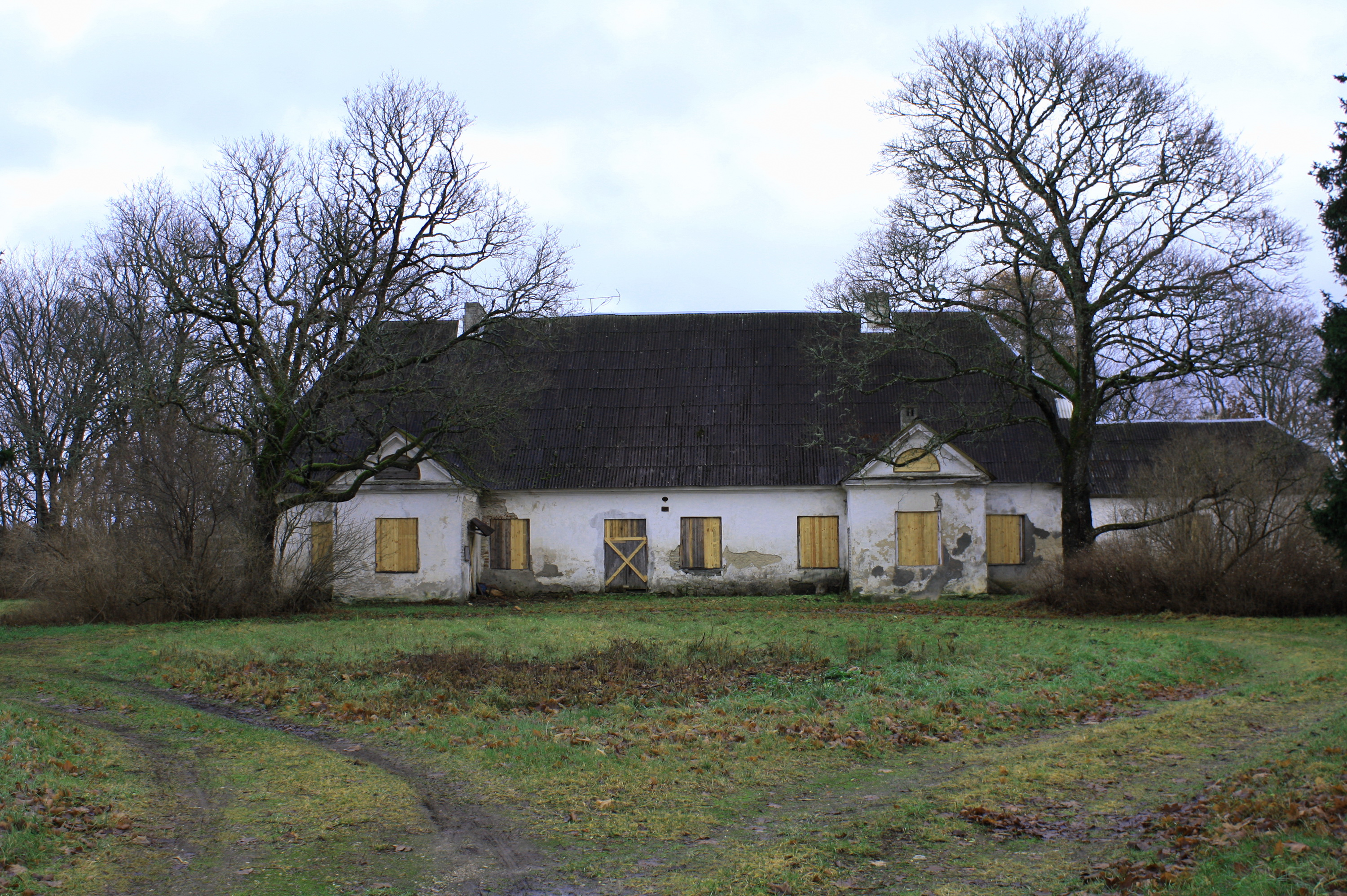 Voore manor house